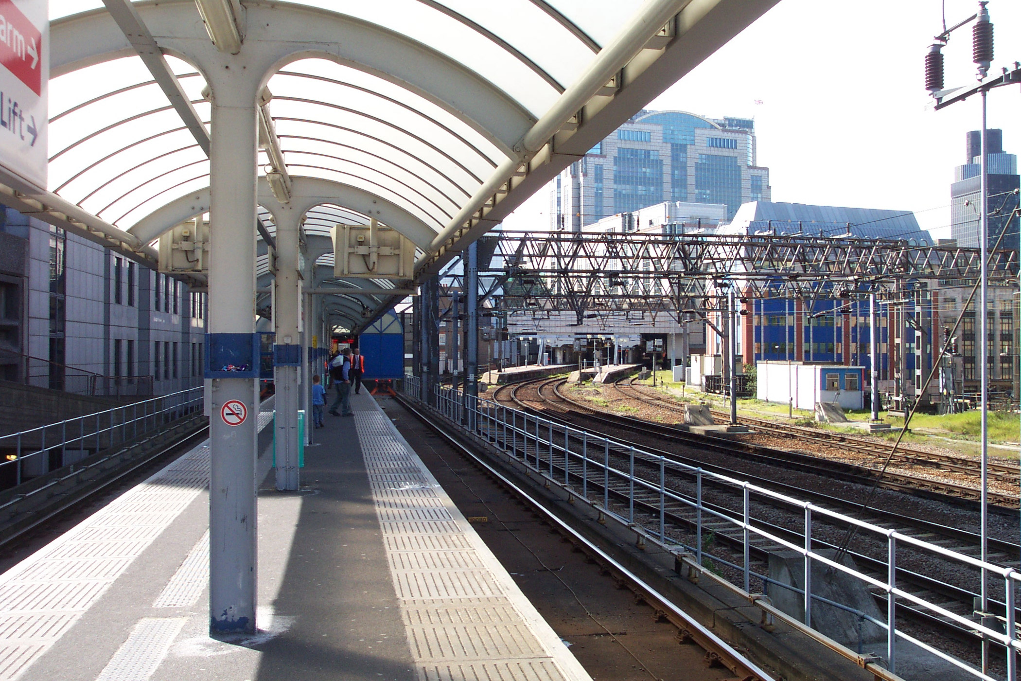 Tower Gateway station platforms, with the throat of Fenchurch Street station to the right.